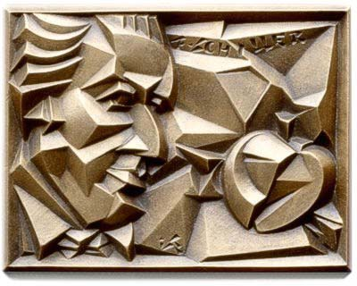 Laszlo Szlavics Jr.: F. Schiller, bronze, cast, 140 x 185 mm, 1991